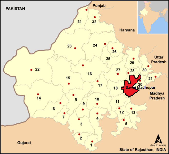 Sawai Madhopur District